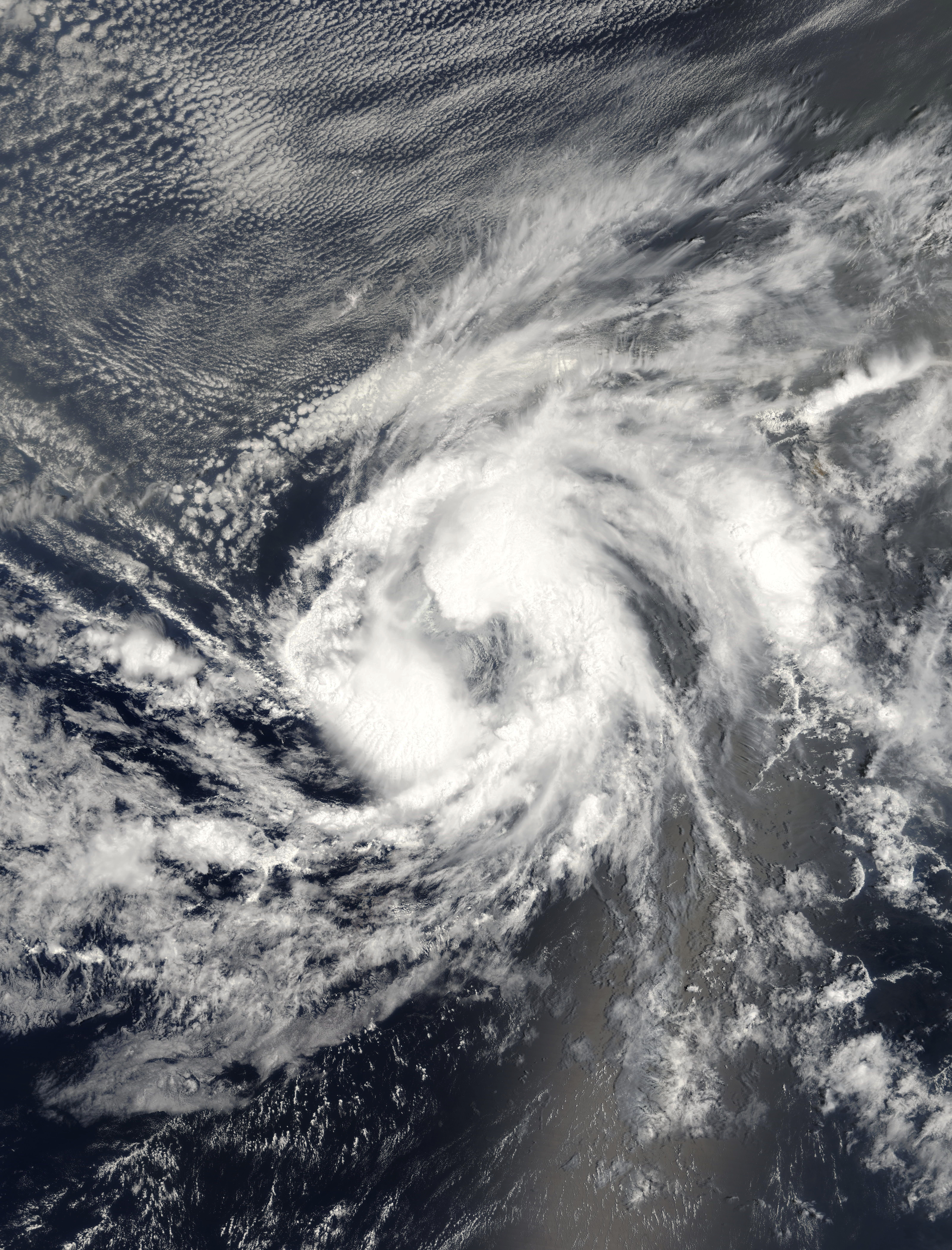 Tropical Storm Josephine at peak intensity west of Cape Verde on September 3, 2008.